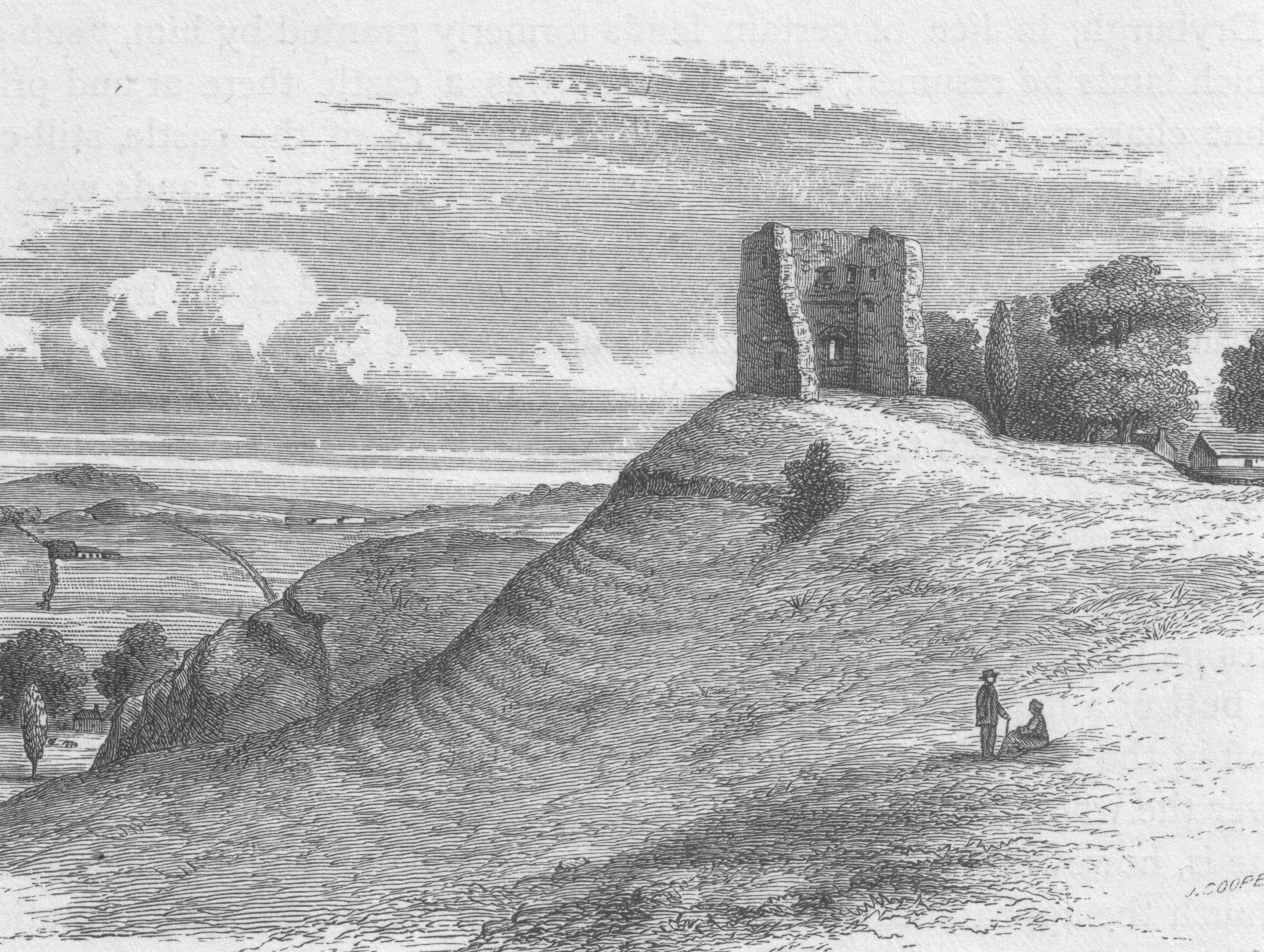 Giffen castle in North Ayrshire, Scotland. Now demolished. Rosser 14:17, 26 May 2007 (UTC)